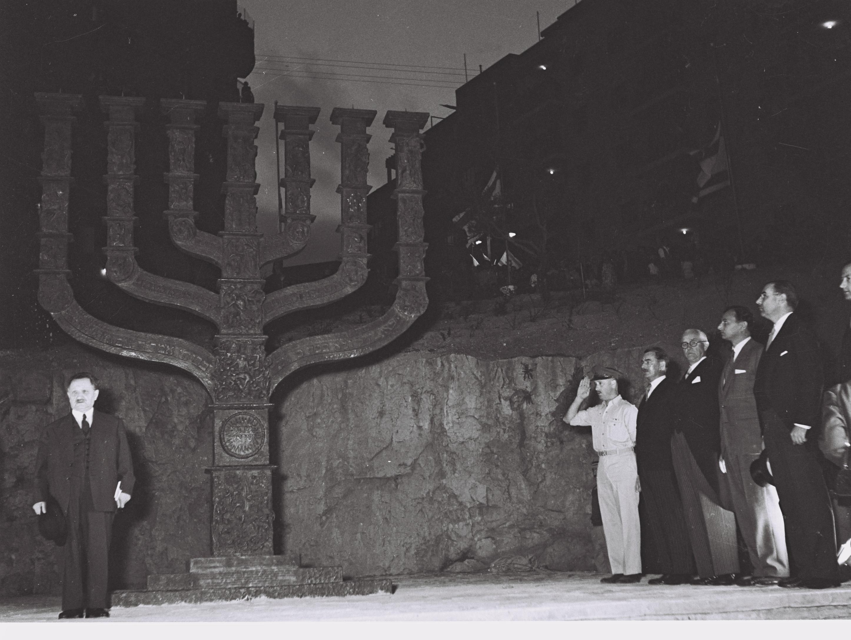 Independence Day celebration of 1956: Unveiling ceremony of the Knesset Menorah by Benno Elkan, given to Israel by the British Parliament; left is the speaker of the Knesset, Yosef Sprinzak